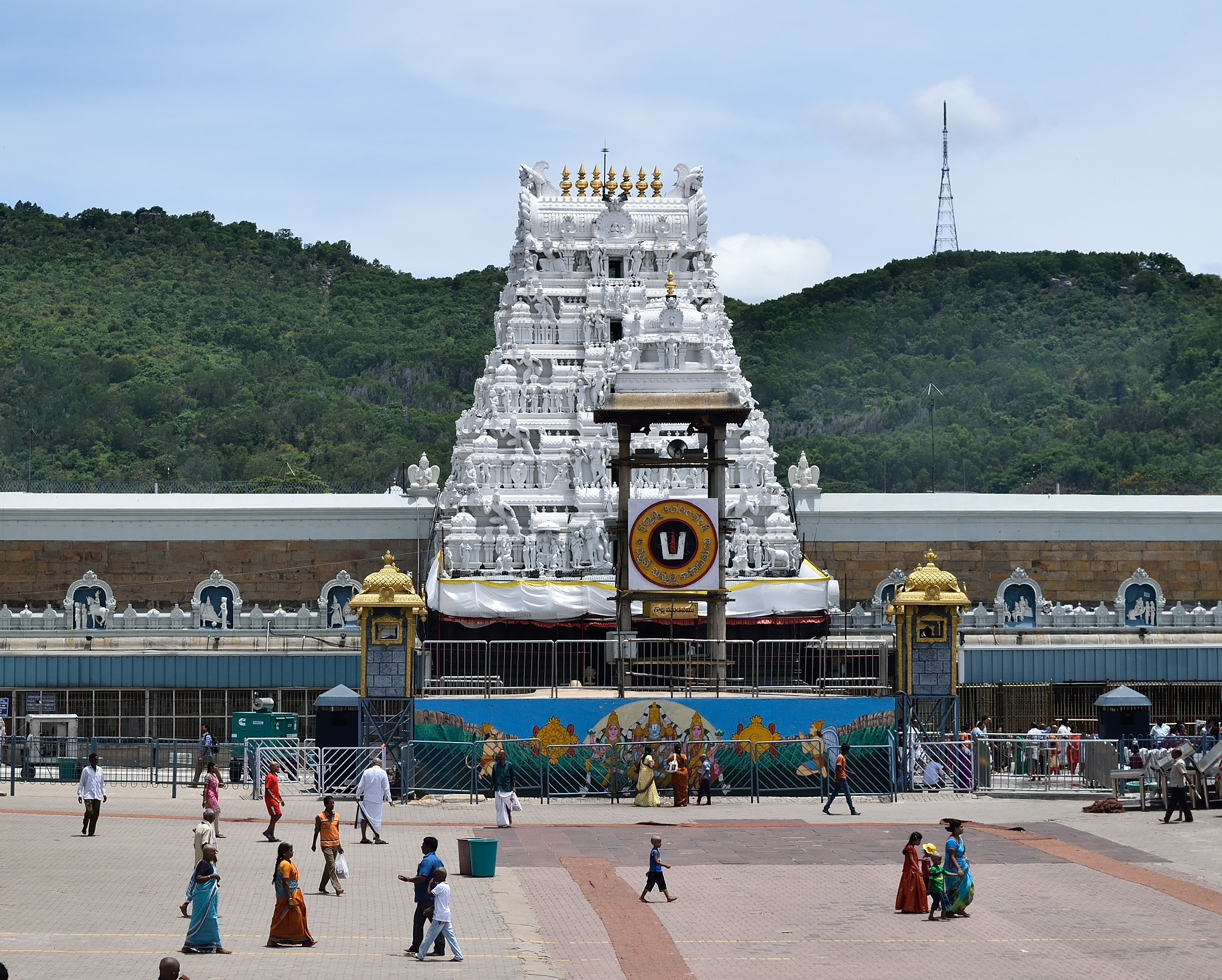 View of the entrance of Sri Venkateswara Temple in Tirumala, Andhra Pradesh, India